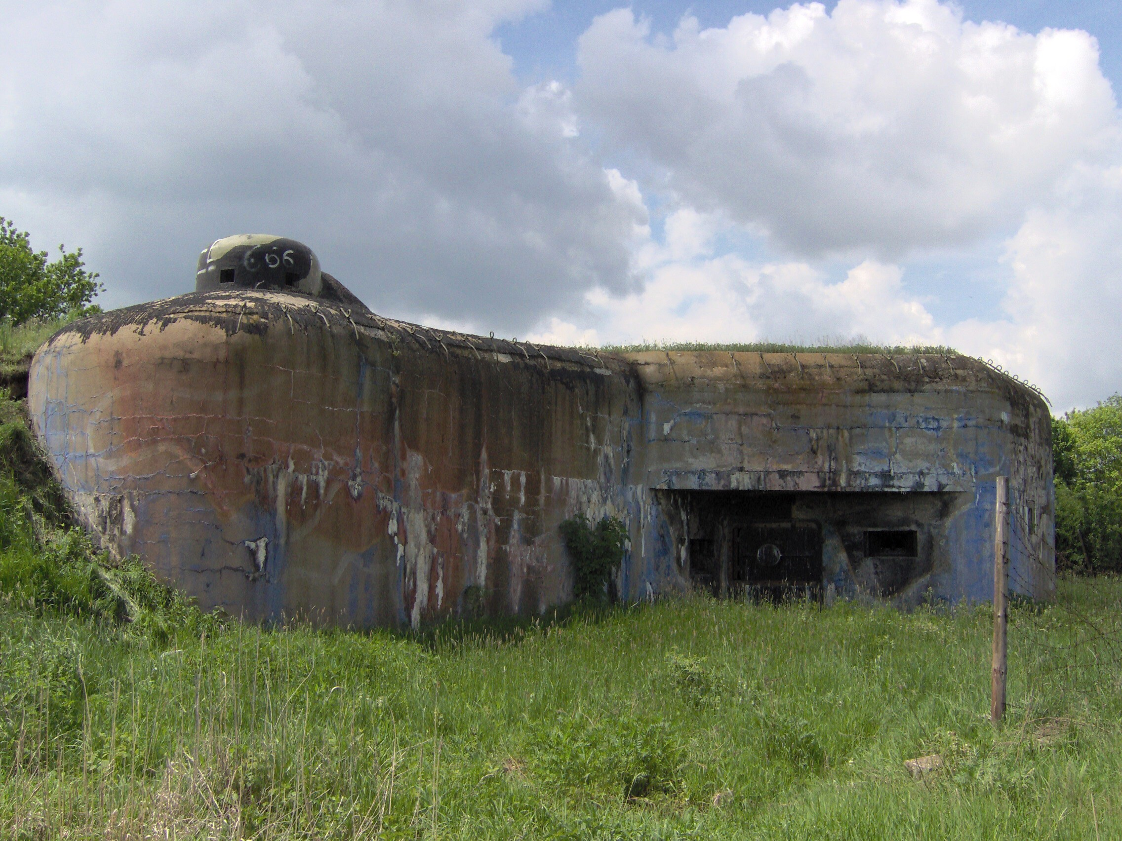 MJ-S 16 Výběžek infantry casemate, Znojmo District, Czech Republic